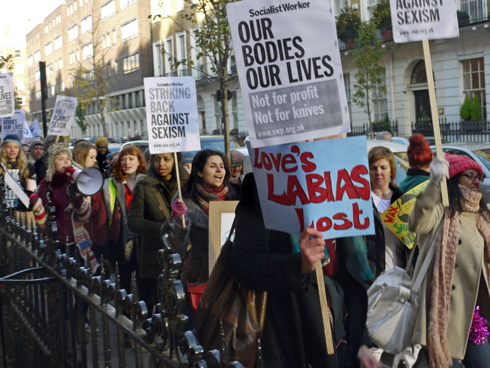 .uk/events/event/muff-march/